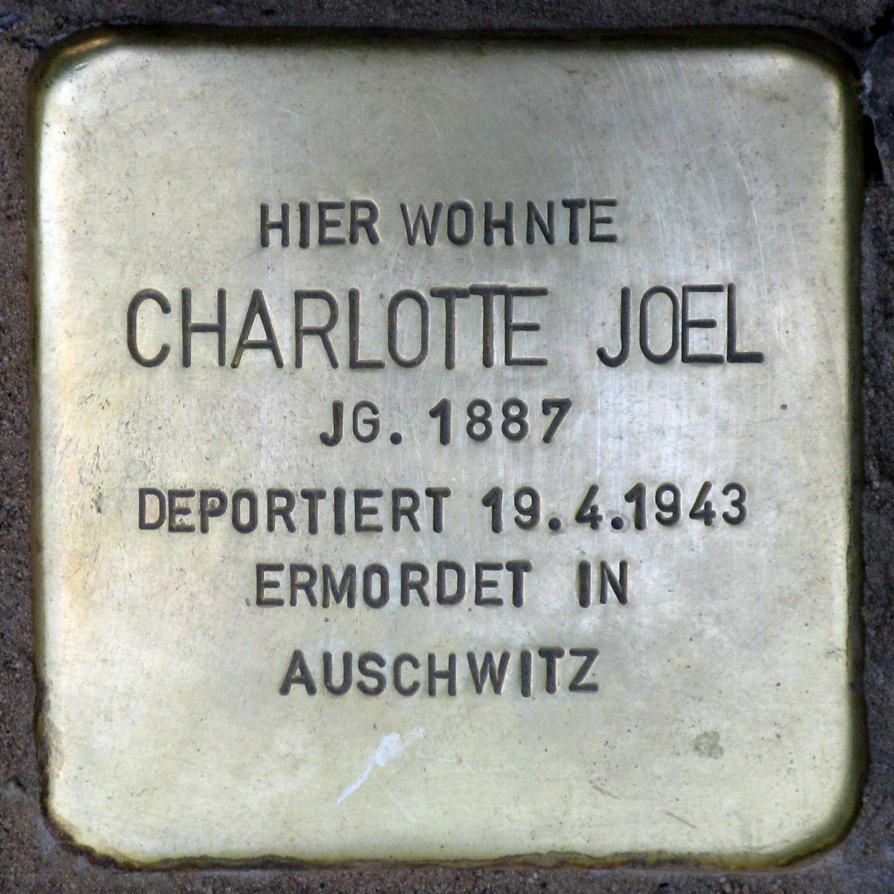 Stolperstein for the photographer Charlotte Joël, Klopstockstraße 19, Berlin-Hansaviertel.